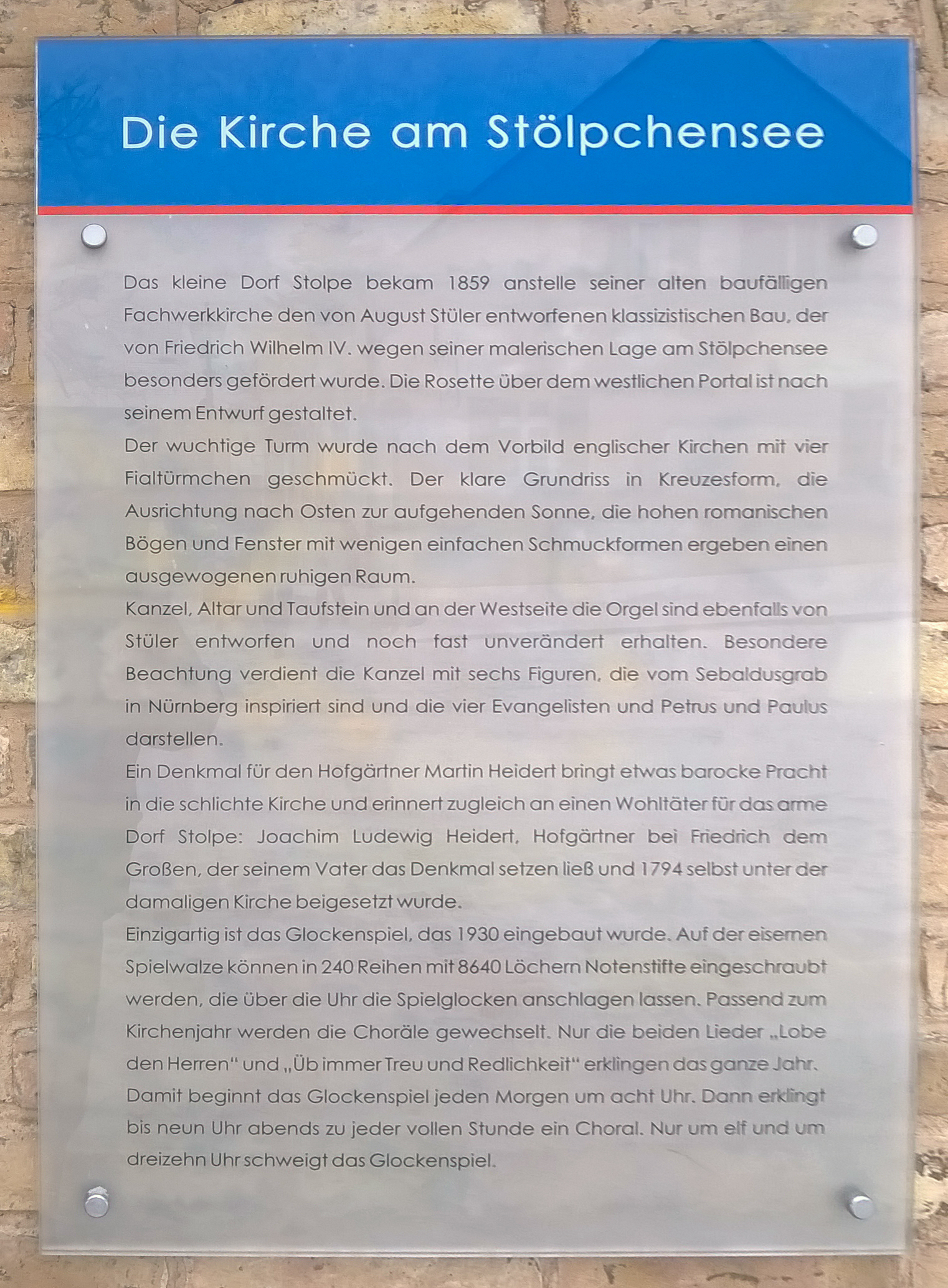 Memorial plaque, Kirche am Stölpchensee, Wilhelmplatz 1, Berlin-Wannsee, Deutschland